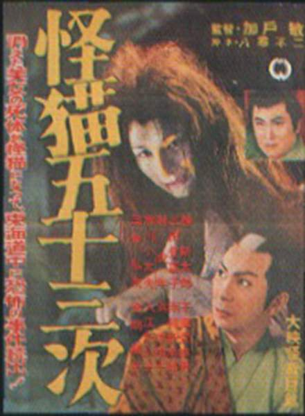 1956 Japanese movie poster for 1956 Japanese movie Ghost-Cat of Gojusan-Tsugi (怪猫五十三次 Kaibyo Gojusan-tsugi).